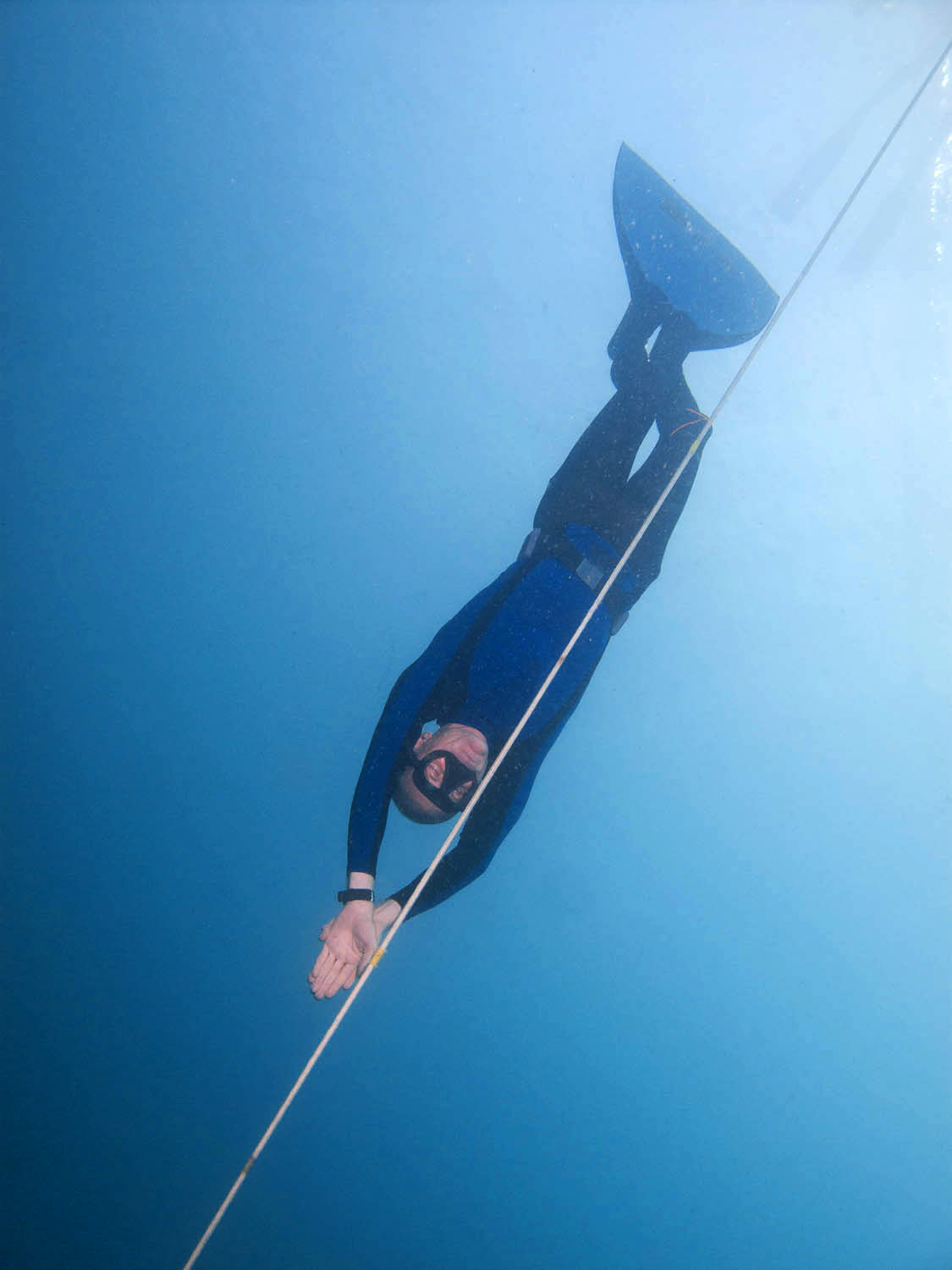 Freediver, Moalboal.